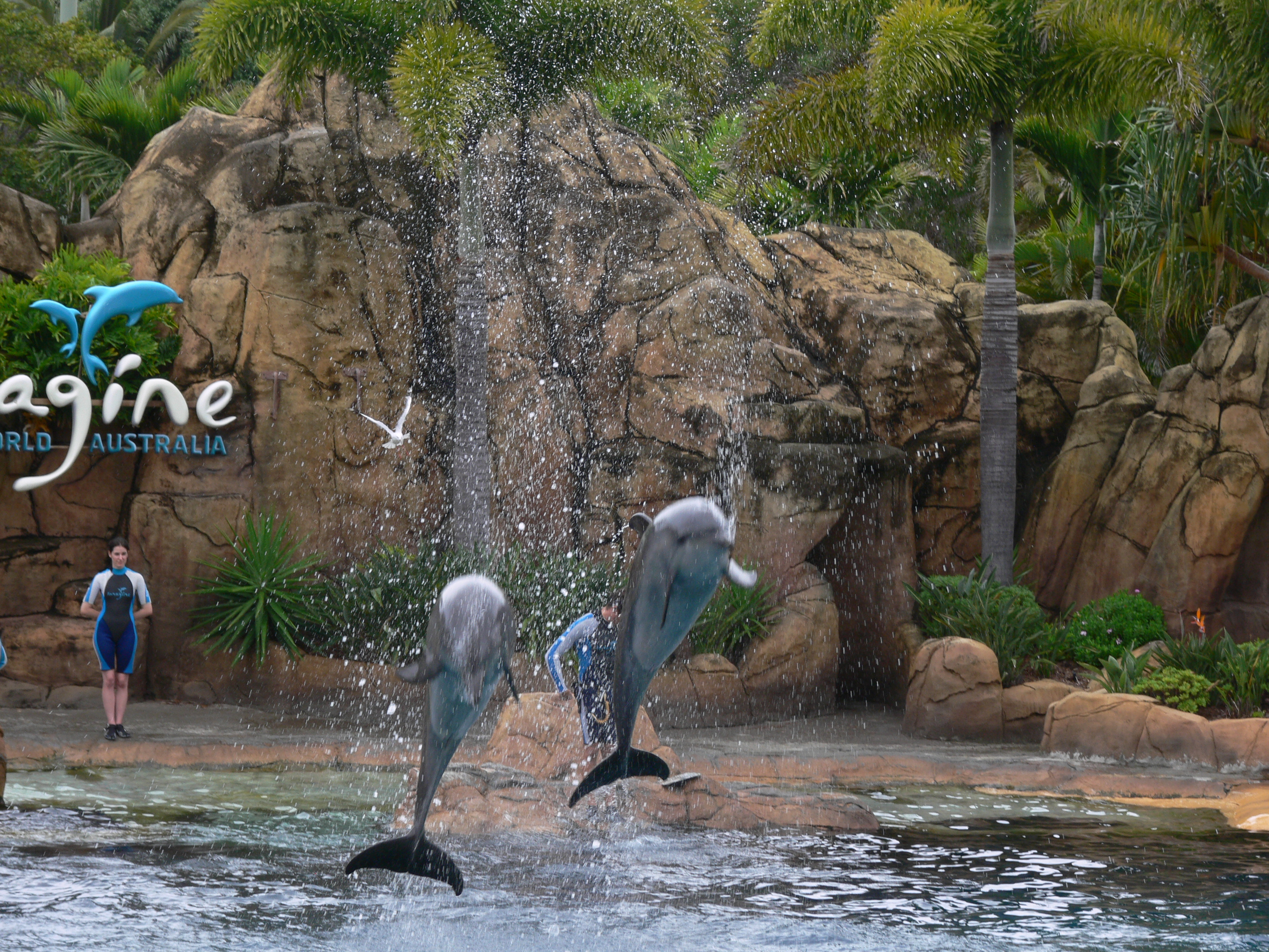 Dolphin Show at Sea World on the Gold Coast.